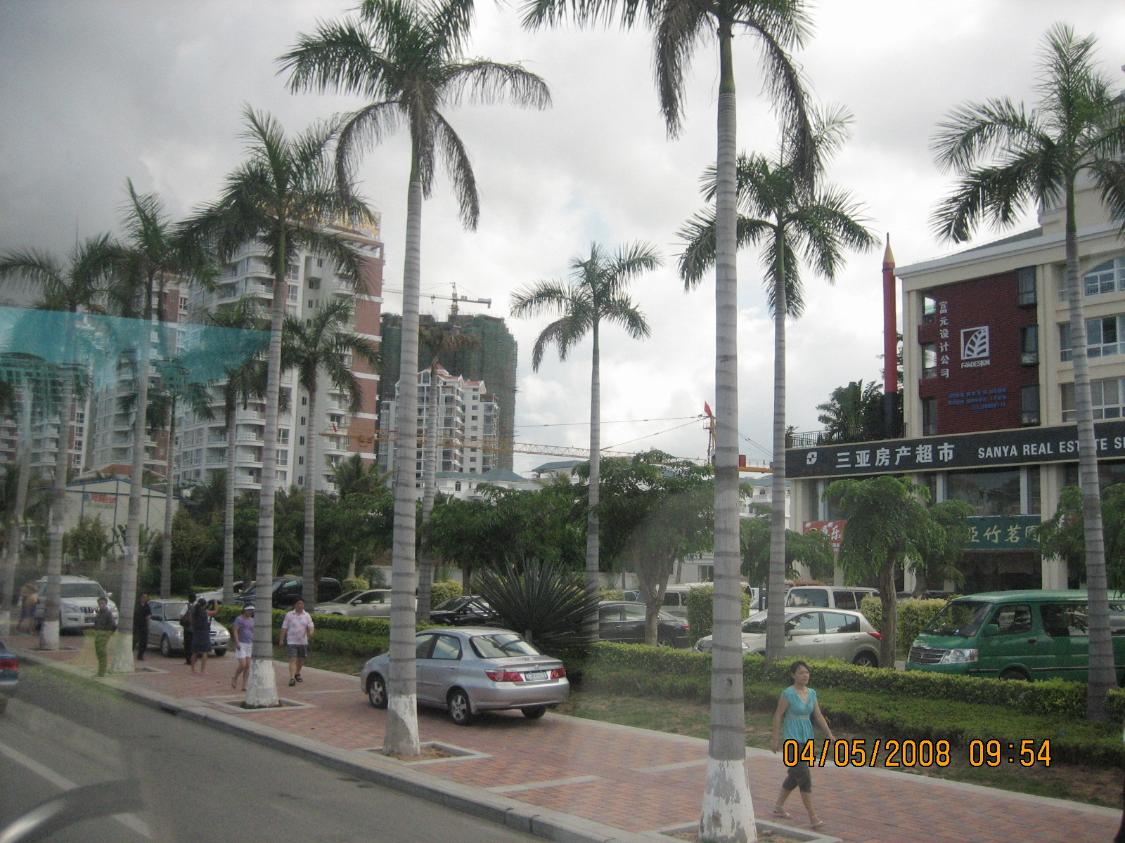 Hainan